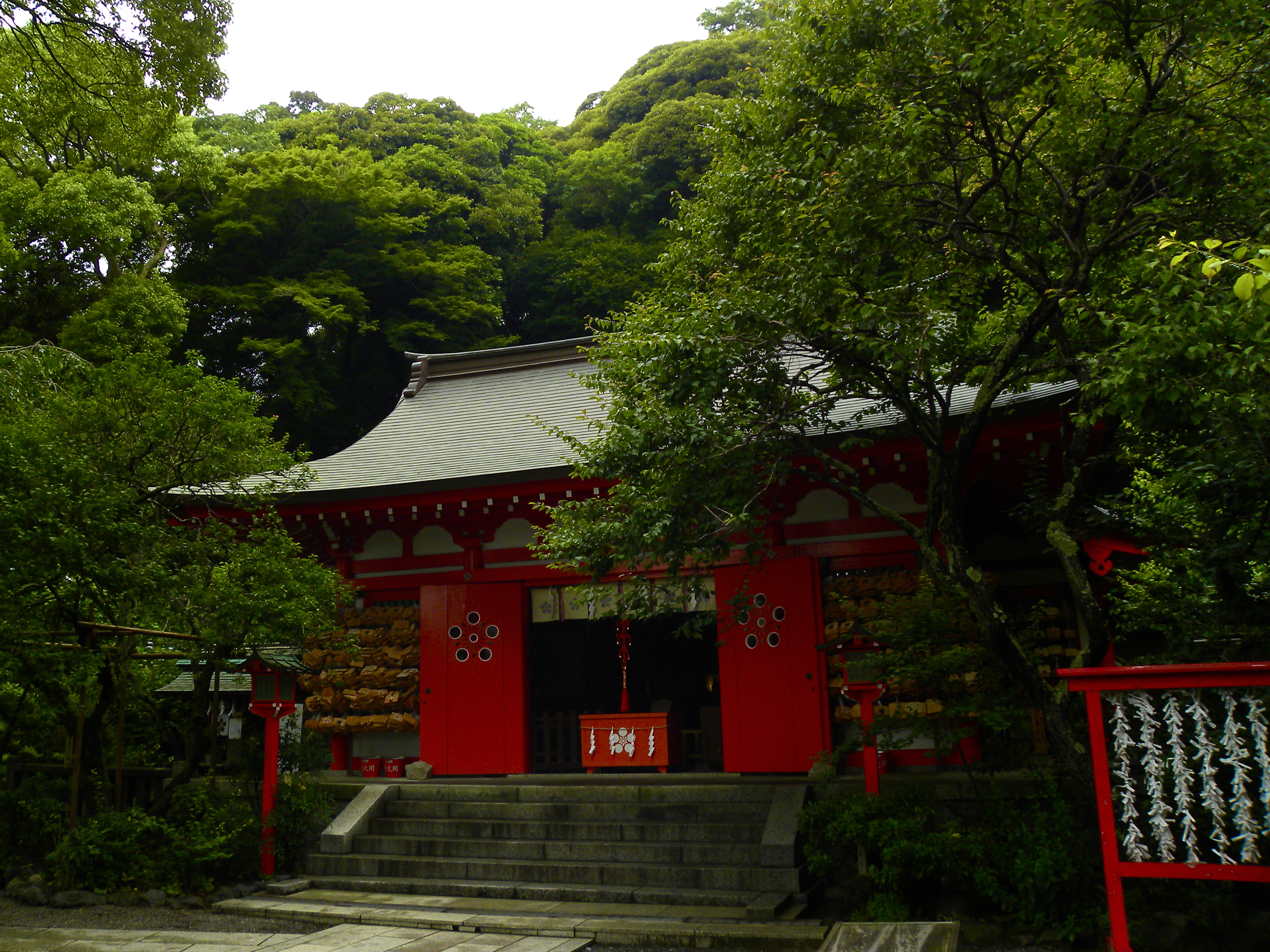 Egara-Tenjin Shrine, Kamakura, Japan